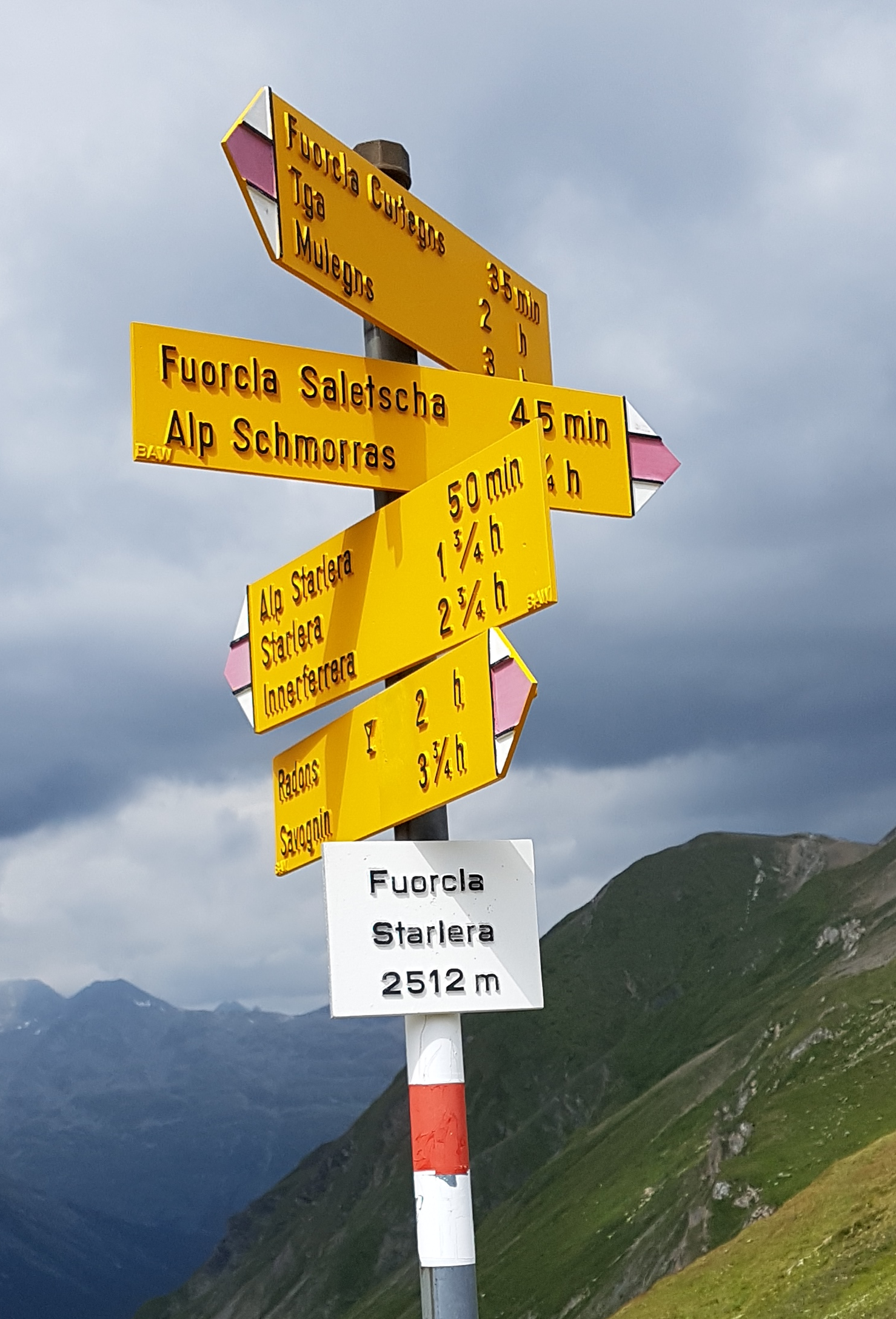 Fingerpost on Fuorcla Starlera (Surses/Ferrera, Grison, Switzerland)